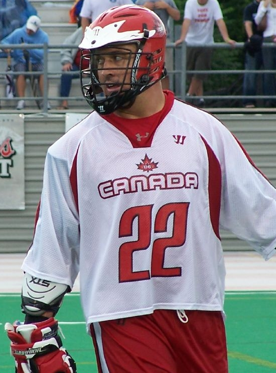 Gary Gait during the 2006 World Lacrosse Championship Title Game (Canada vs USA) that Canada won